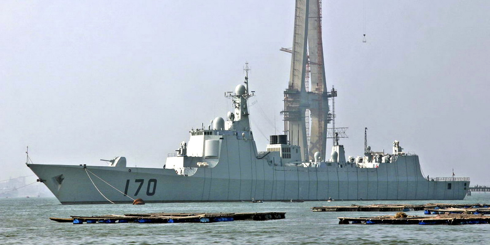 Crop of File:Fleet Hangchow Bay Bridge-1-.jpg